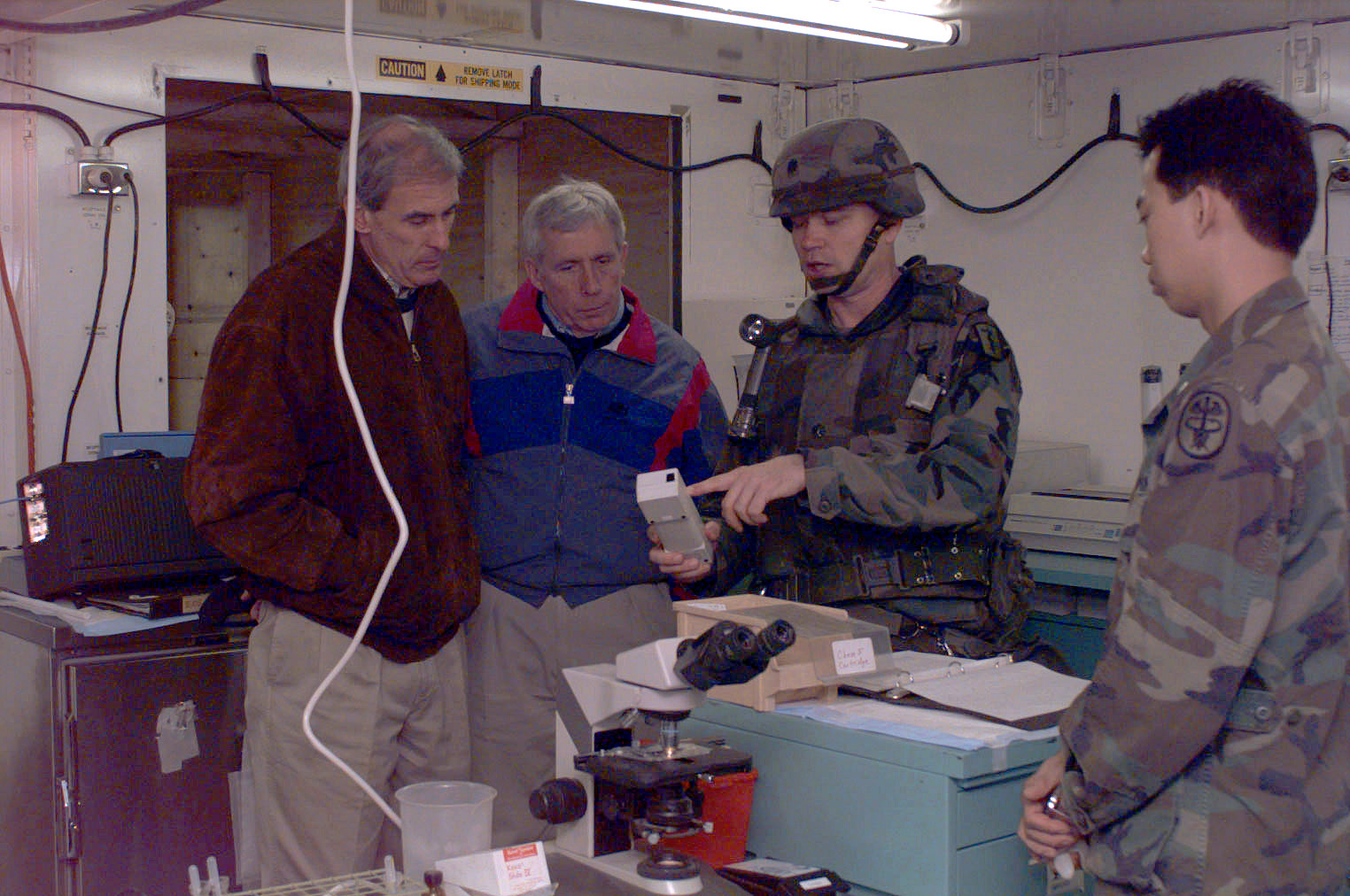 Senator Dan Coats (R-IN) in brown jacket, and Representative Frank Wolf (R-VA) visit the 212th Mobile Army Surgical Hospital (MASH), Camp Bedrock, Bosnia-Herzegovina, during Operation Joint Endeavor, 4/13/1996